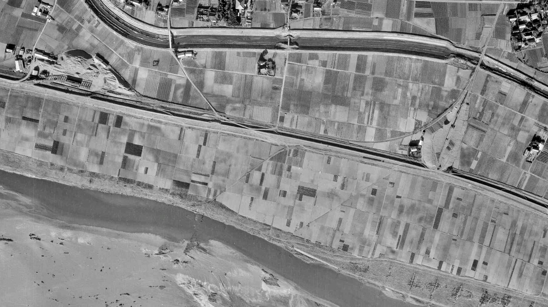 Tokugawagashi Station (right) and Hiratsukagashi Station (left).